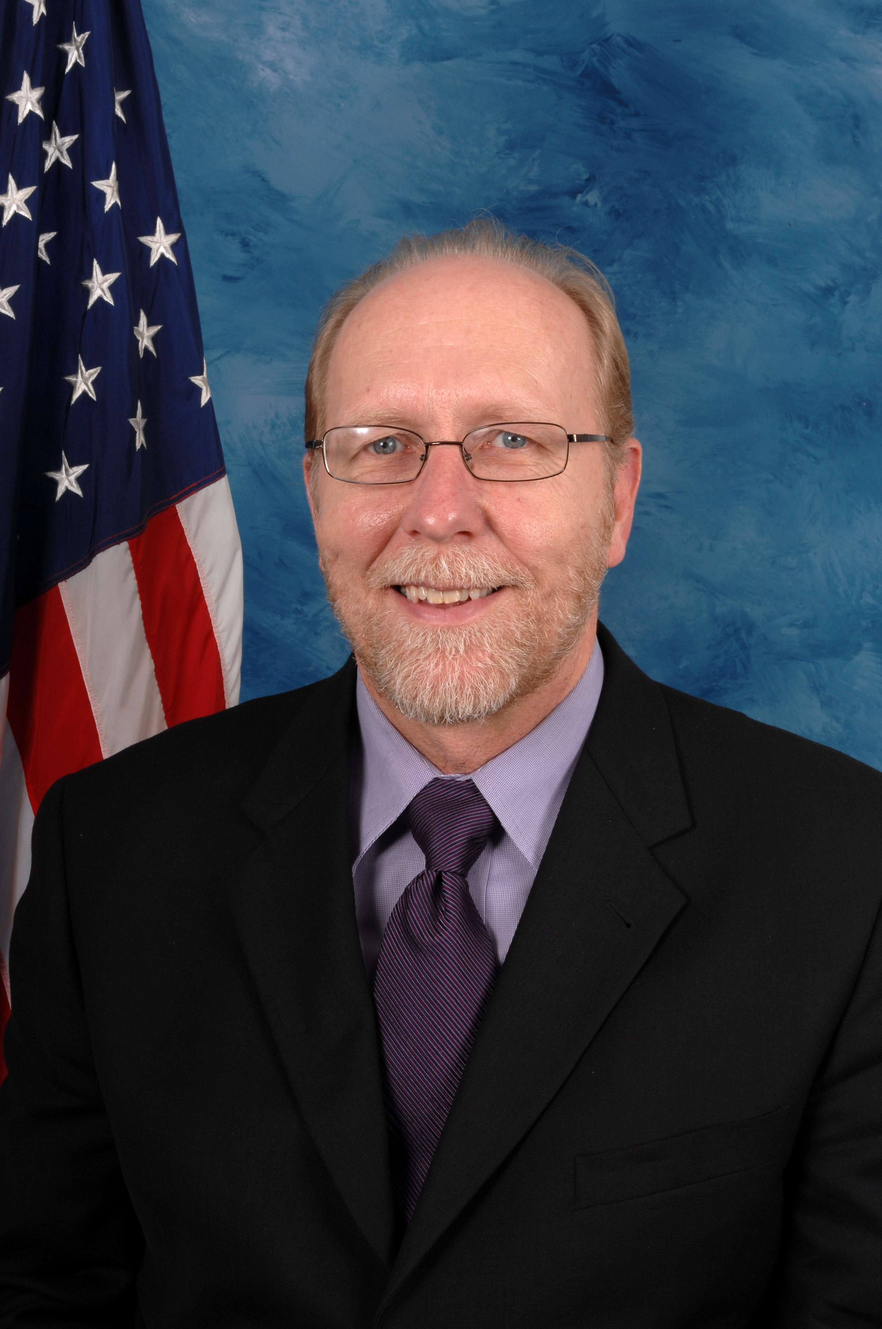 David Loebsack, member of the United States House of Representatives.